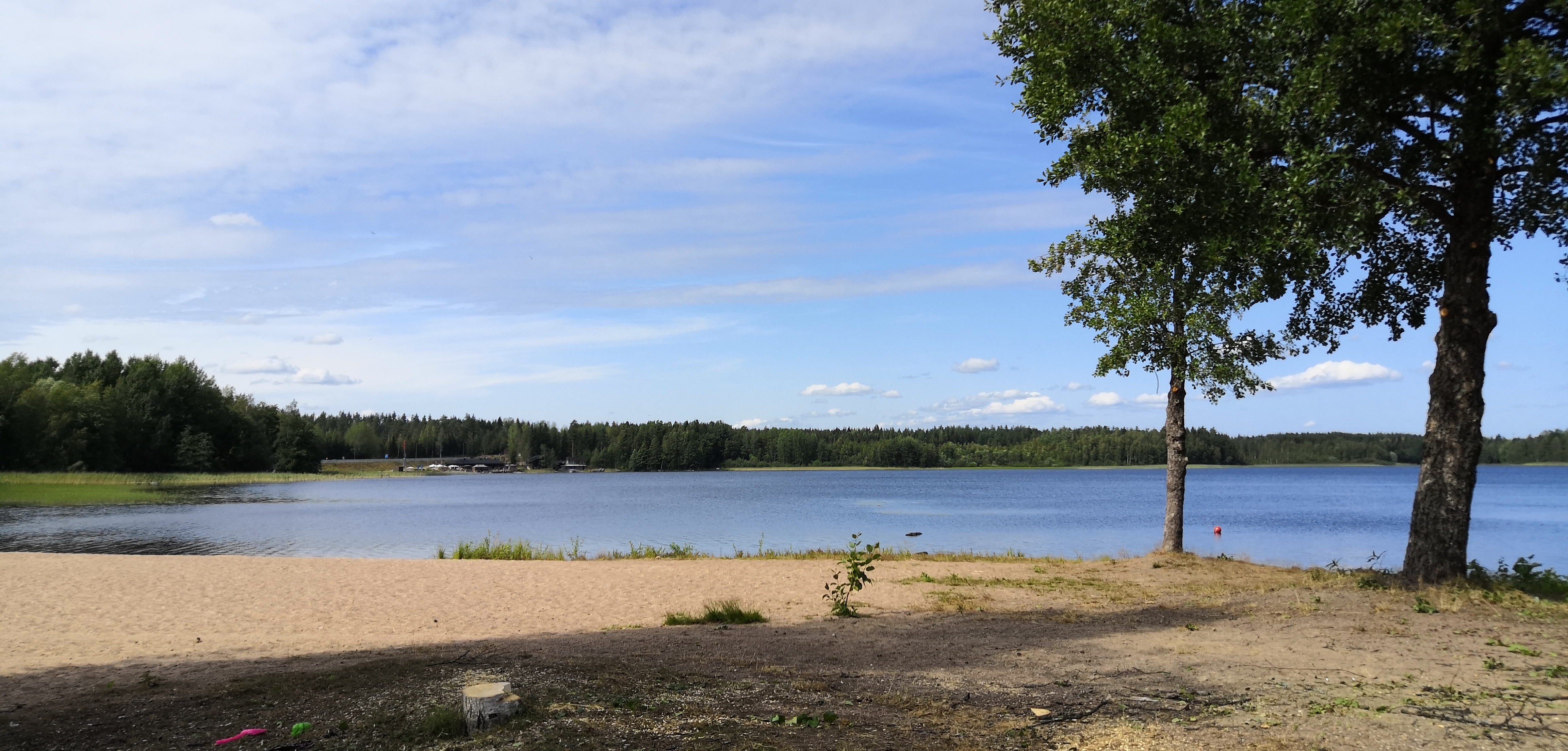 Käyrälampi elokuussa 2019